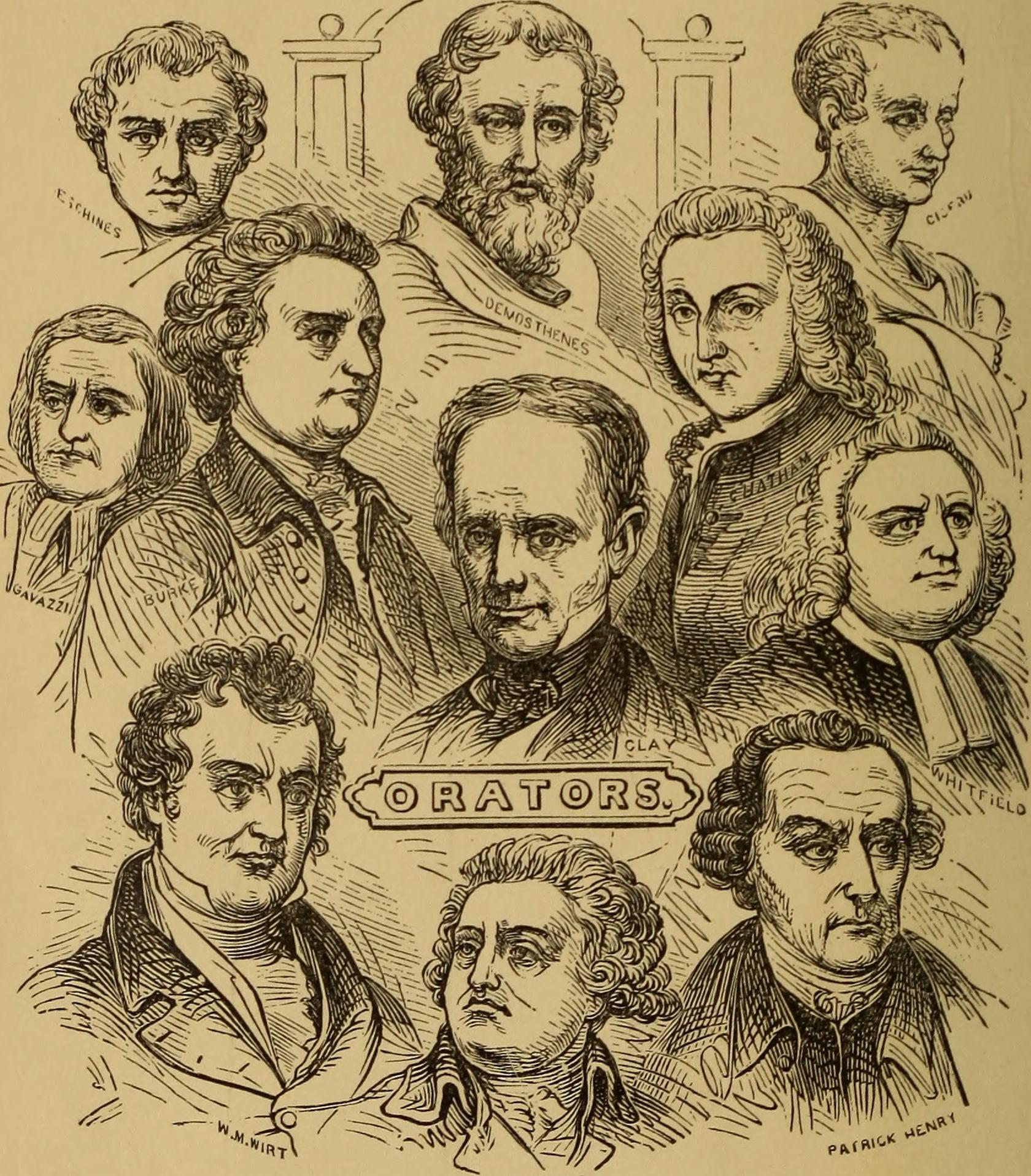 Title: A natural system of elocution and oratory : founded on an analysis of human constitution, considered in its three-fold nature--mental, physiological and expressional Year: 1886 (1880s) Authors: Hyde, Thomas A. (Thomas Alexander), 1859-1925 Hyde, William, of Cambridge Subjects: Elocution Oratory Publisher: New York : Fowler & Wells Co. London : L.N. Fowler & Co. Text Appearing Before Image: CONGRESS Text Appearing After Image: A NATURAL SYSTEM OF ELOCUTION AND ORATORY, FOUNDED ON AN ANALYSIS OF THE HUMAN CONSTITUTION CONSIDERED IN ITS THREE-FOLD NATURE—MENTAL,PHYSIOLOGICAL AND EXPRESSIONAL. BY THOMAS A. HYDE AND WILLIAM HYDE. ILLUSTRATED. K& MAY2BM.886/C NEW YORK: FOWLER & WELLS CO., PUBLISHERS, No. 753 Broadway. 1886. COPYRIGHT BY FOWLER & WELLS CO. 1880. C. E. Martin, Printer,5 Clinton Place, New York. DEDICATION. THIS BOOK IS RESPECTFULLY DEDICATED TO HENRY S. Drayton, A.M., M.D., by the authors, as a token OF RESPECT AND CONSIDERATION FOR HIS KIND ASSIST-ANCE IN PREPARING IT FOR THE PRESS. PEEFAOE. The study of eloquence in all ages has had a peculiar fas-cination, especially for those who have gained some reputa-tion as public speakers. Demosthenes, Pericles and iEschi-nes and other great Grecian orators devoted much of theirtime to the study. Quintillian and Cicero wrote books on thesubject of eloquence, and then example has been followed bymany modern public speakers. Lords Chatham andnaturalsystemofe00hyde